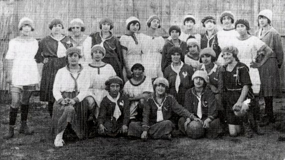 Picture of two ladies team of football (soccer) in Algiers in 1921, this is l'AS Alger and GC Oran, for to exhibition match of "l'Exposition de la foire d'Alger"